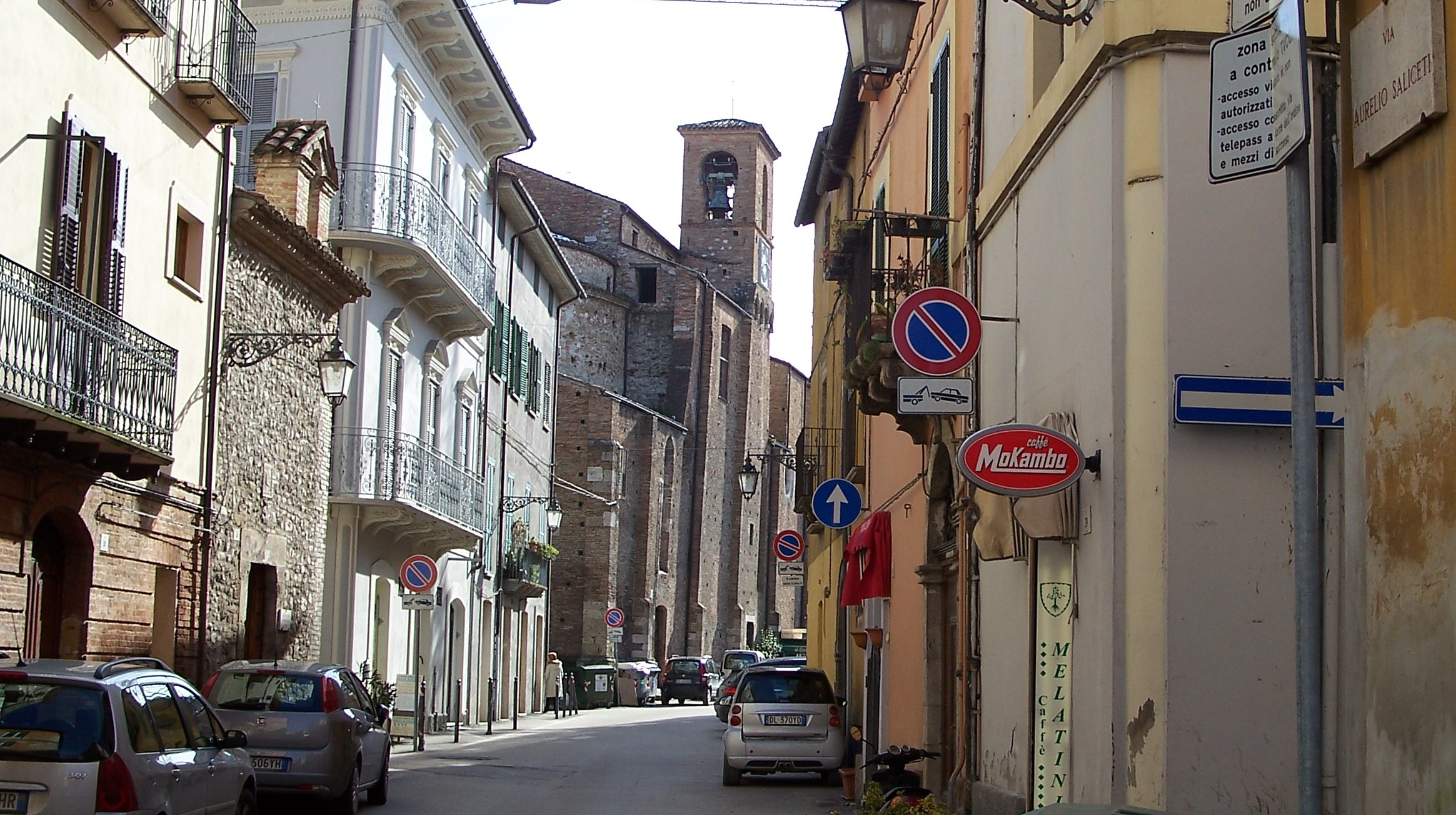 Largo Melatini and Chiesa Di Sant'Antonio (Church of Saint Anthony of Padua) in Teramo, Province of Teramo, Abruzzo, Italy.